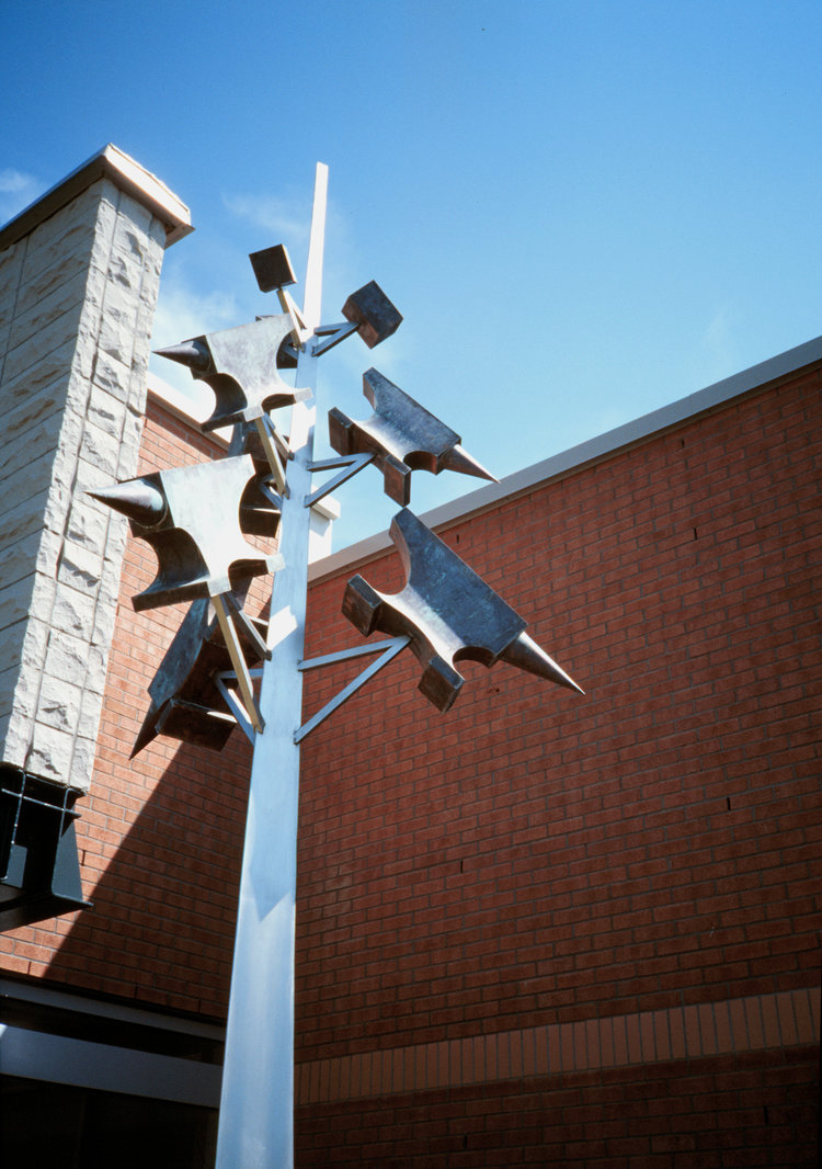 Sans Titre, école des métiers